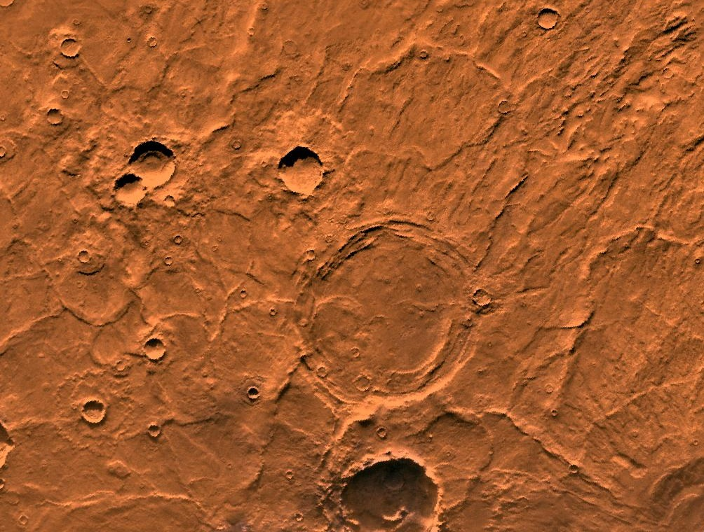 Peneus Patera martian volcano